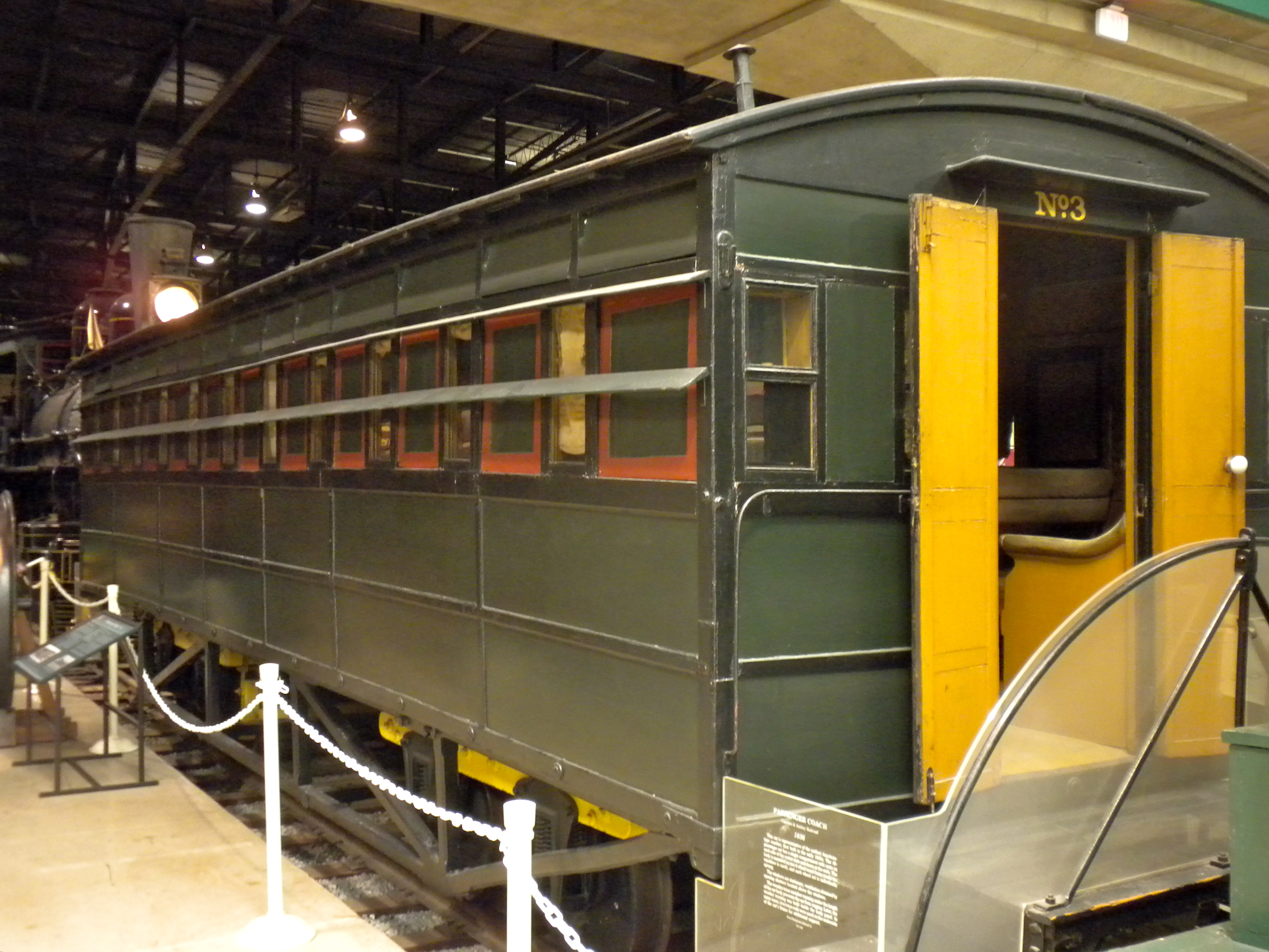 Camden and Amboy Coach No. 3 at the Railroad Museum of Pennsylvania, east of Strasburg, PA. Built 1836, retired c. 1865, seating capacity 48 passengers, weight 14,250 lbs. length 35 ft. 7 inches. 2nd oldest extant passenger car in America